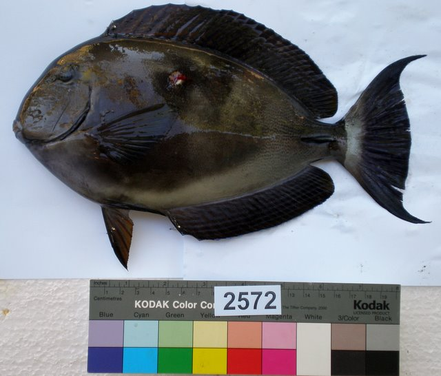 Acanthurus blochii. Locality: Récif Snark, Off Nouméa, New Caledonia. Forl Length 268 mm, Weight 500 grams. Date 2008/06/05